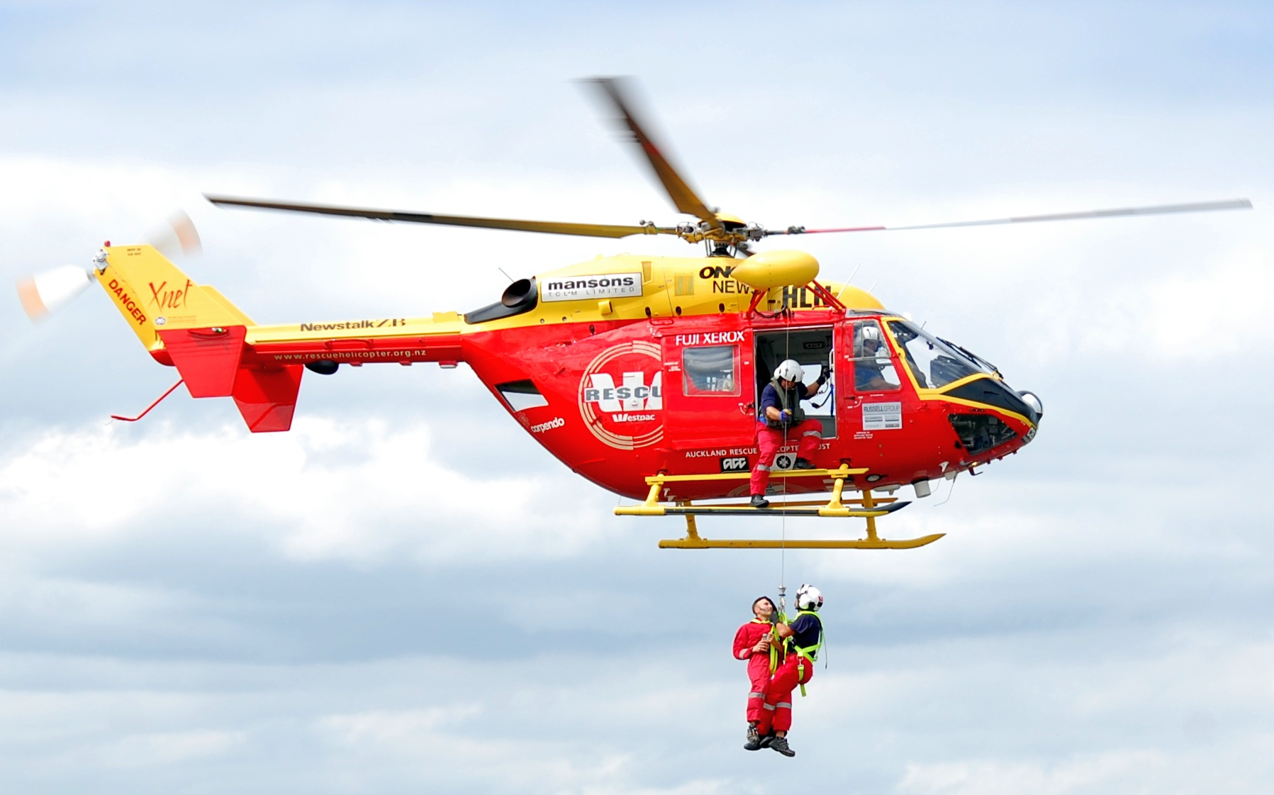 Westpac Rescue Helicopter, Taken at the New Zealand Airforce Open Day 2009 (